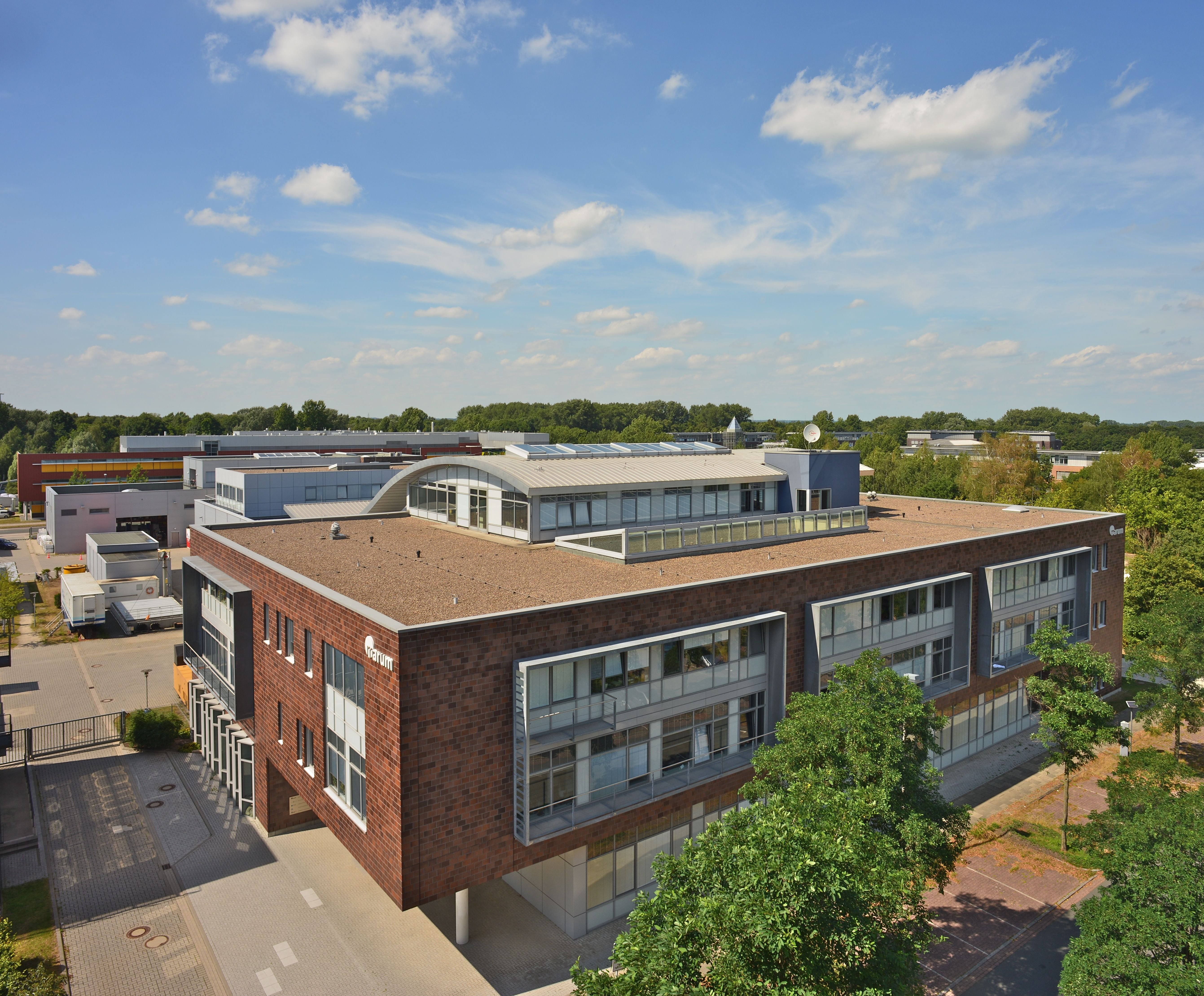 The main MARUM building on Leobener Straße on the campus of the University of Bremen.